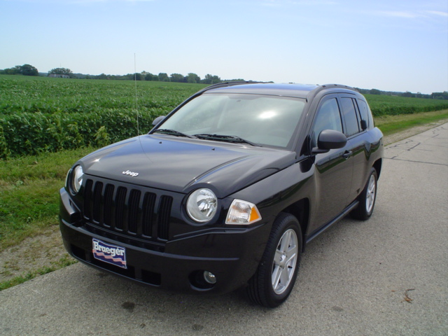 2007 Jeep Compass, photographed in USA.